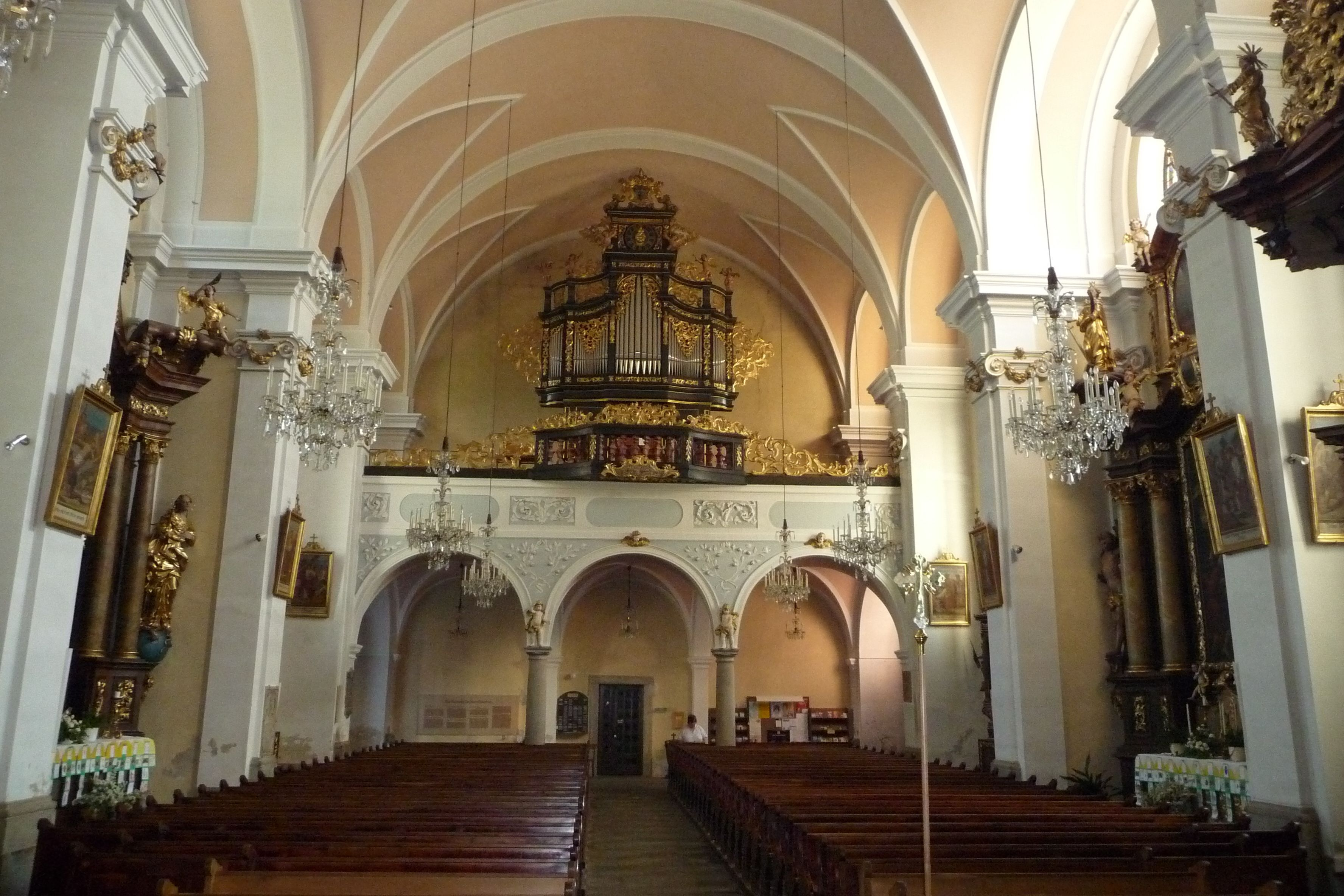 Inside of parish church in Rohrbach Upper Austria